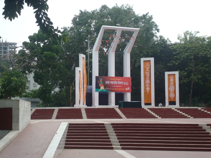 The Central Shaheed Minar of Bangladesh